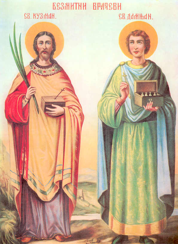 Saints Cosmas and Damian (ortodox icon)